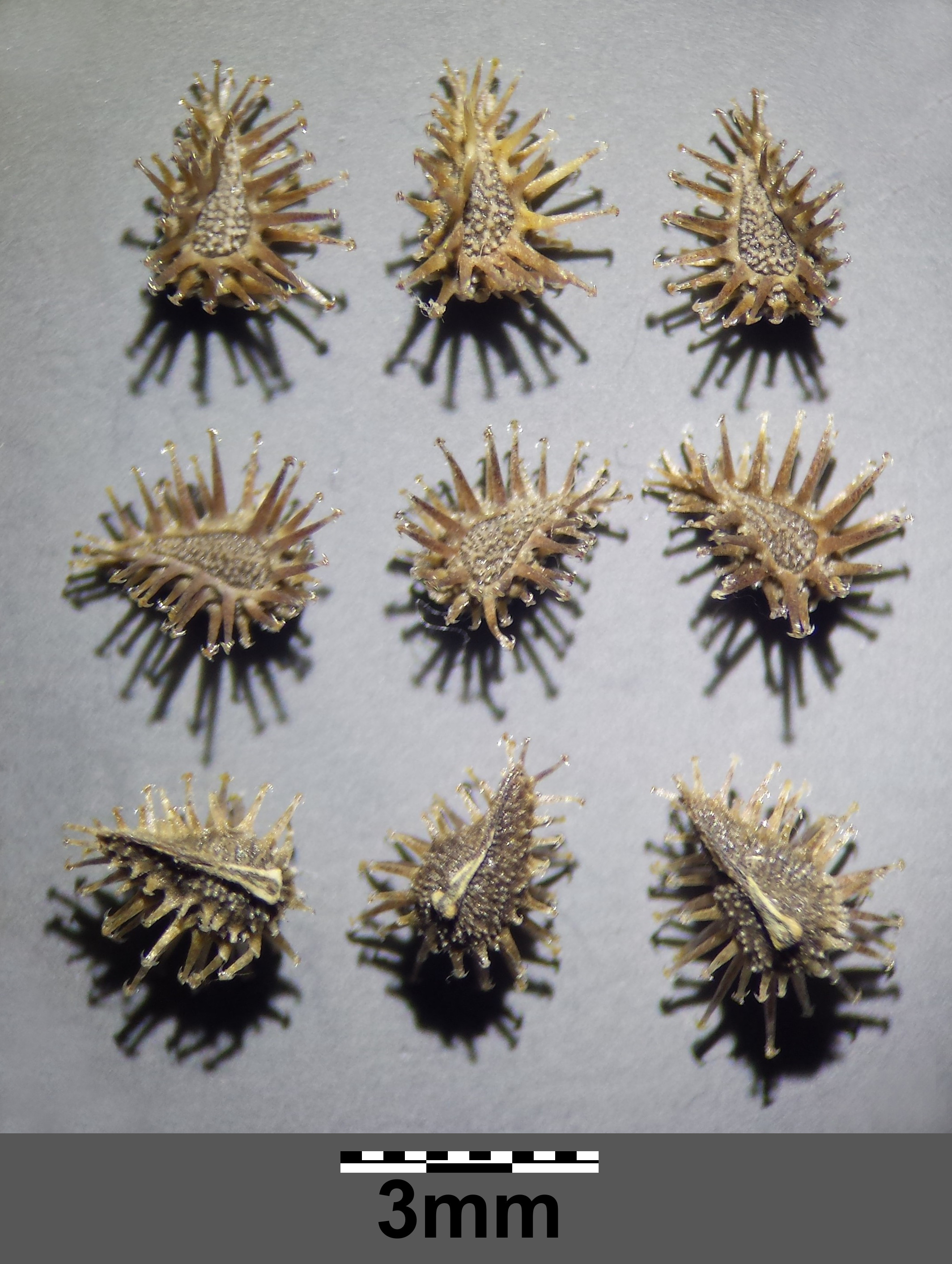 Fruitlets Taxonym: Lappula squarrosa s. str. ss Fischer et al. EfÖLS 2008 ISBN 978-3-85474-187-9 Location: Leeberg Großmugl, district Korneuburg, Lower Austria - 265 m a.s.l. (leg.: 2015-08-02) Habitat: dry grassland